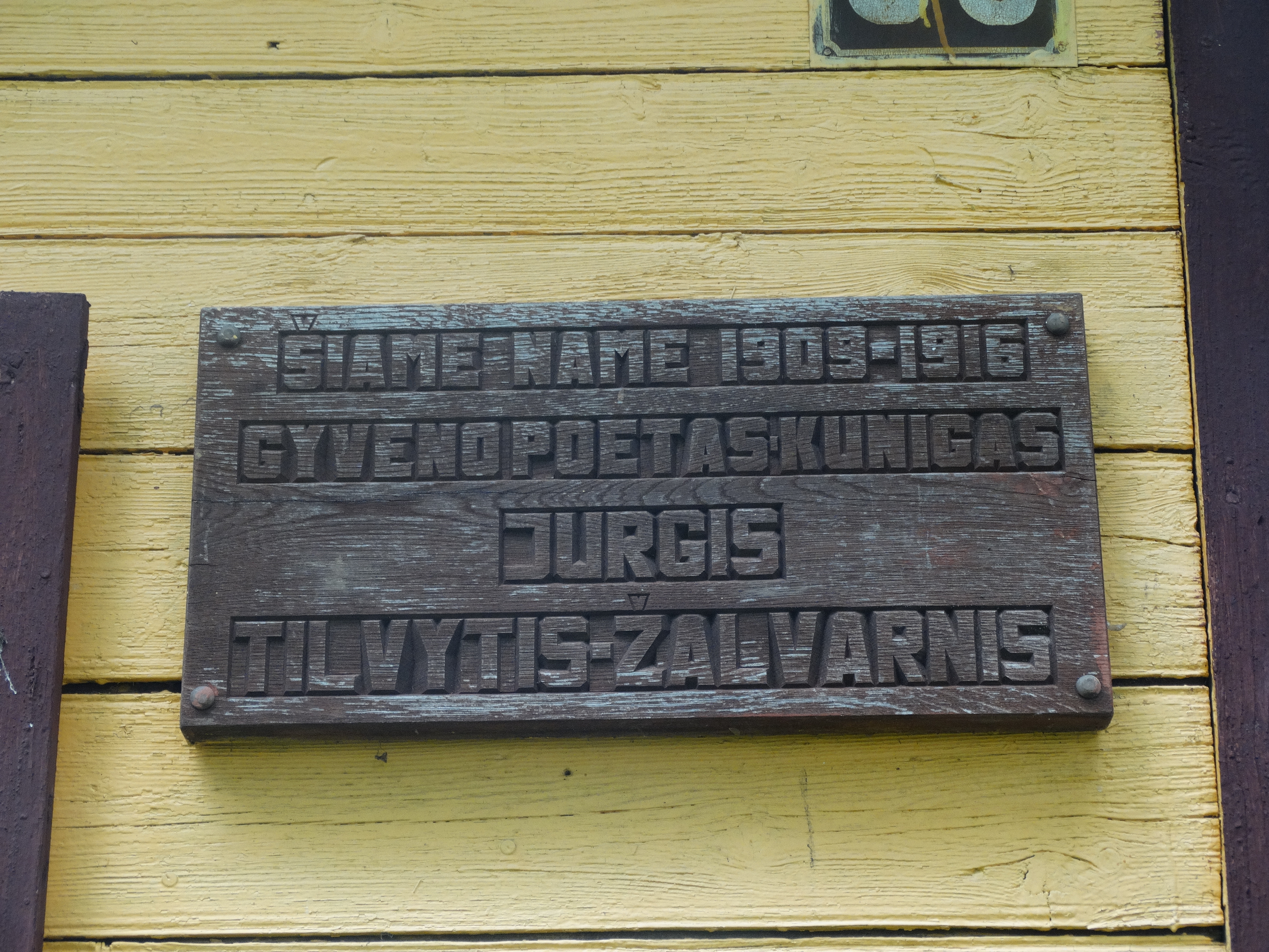 Memorial plaque to Jurgis Tilvytis, Paįstrys, Panevėžys District, Lithuania